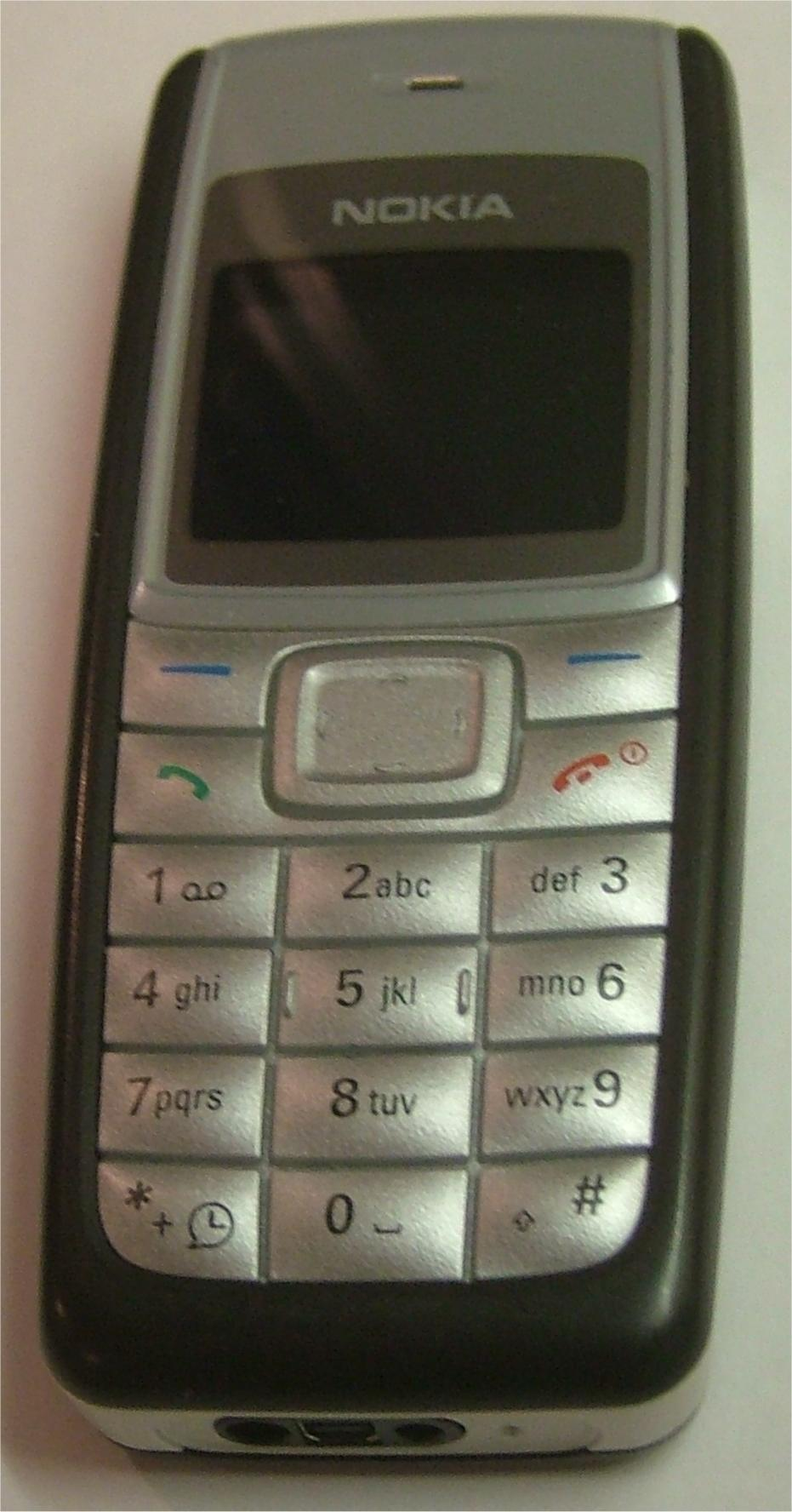 Picture of Nokia 1110 Cropped in Paint Shop Pro 7